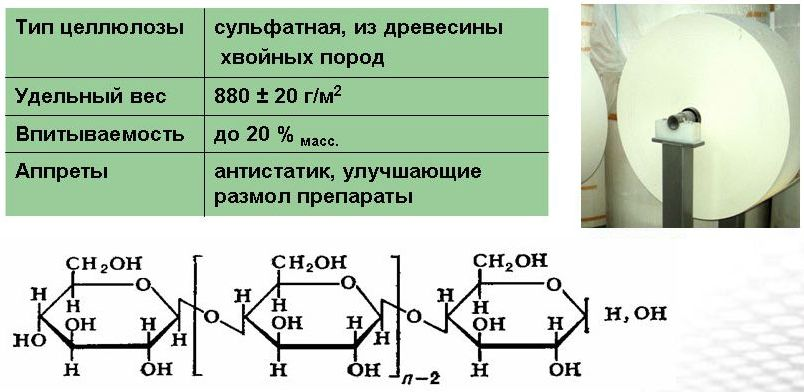 Pulp description